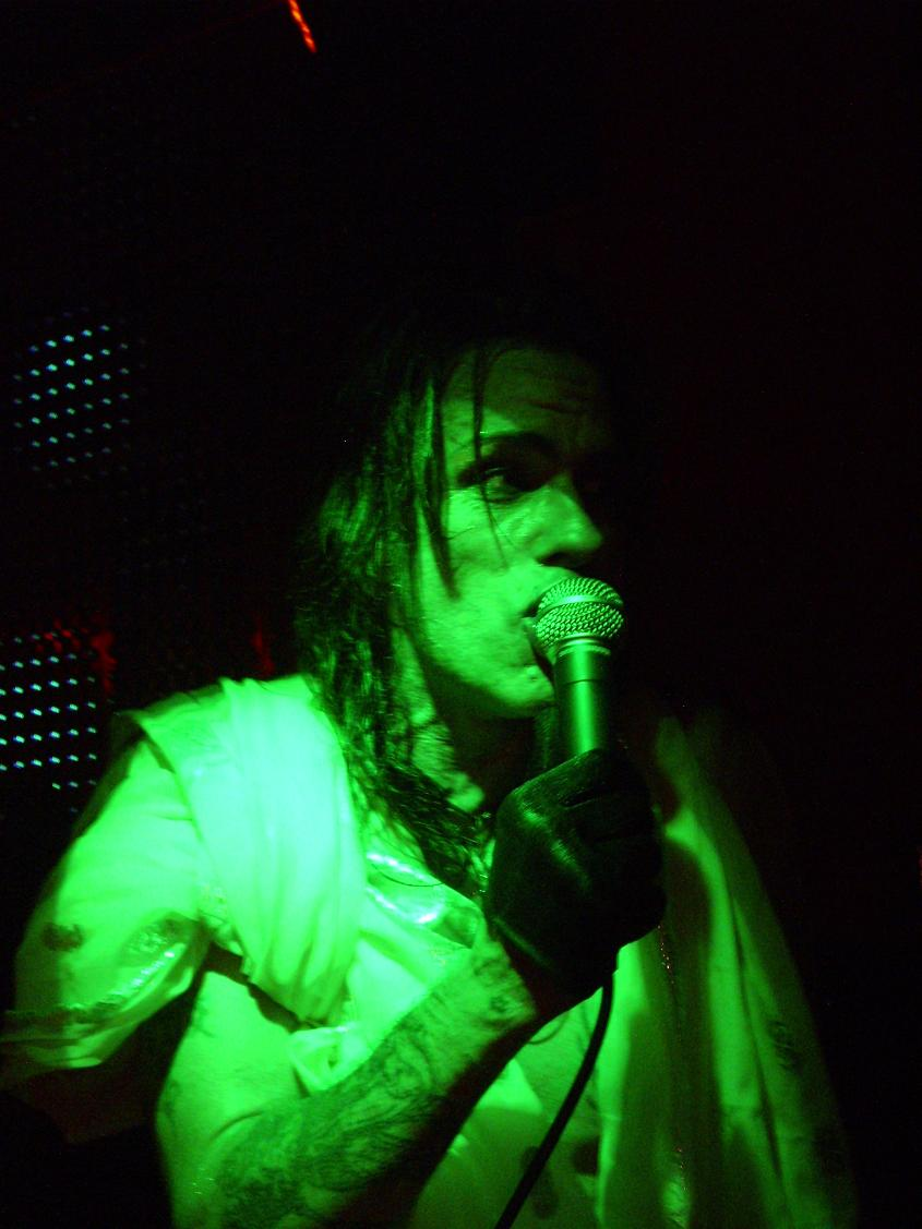 Pat Briggs from Psychotica @ Sala La Boite Madrid.